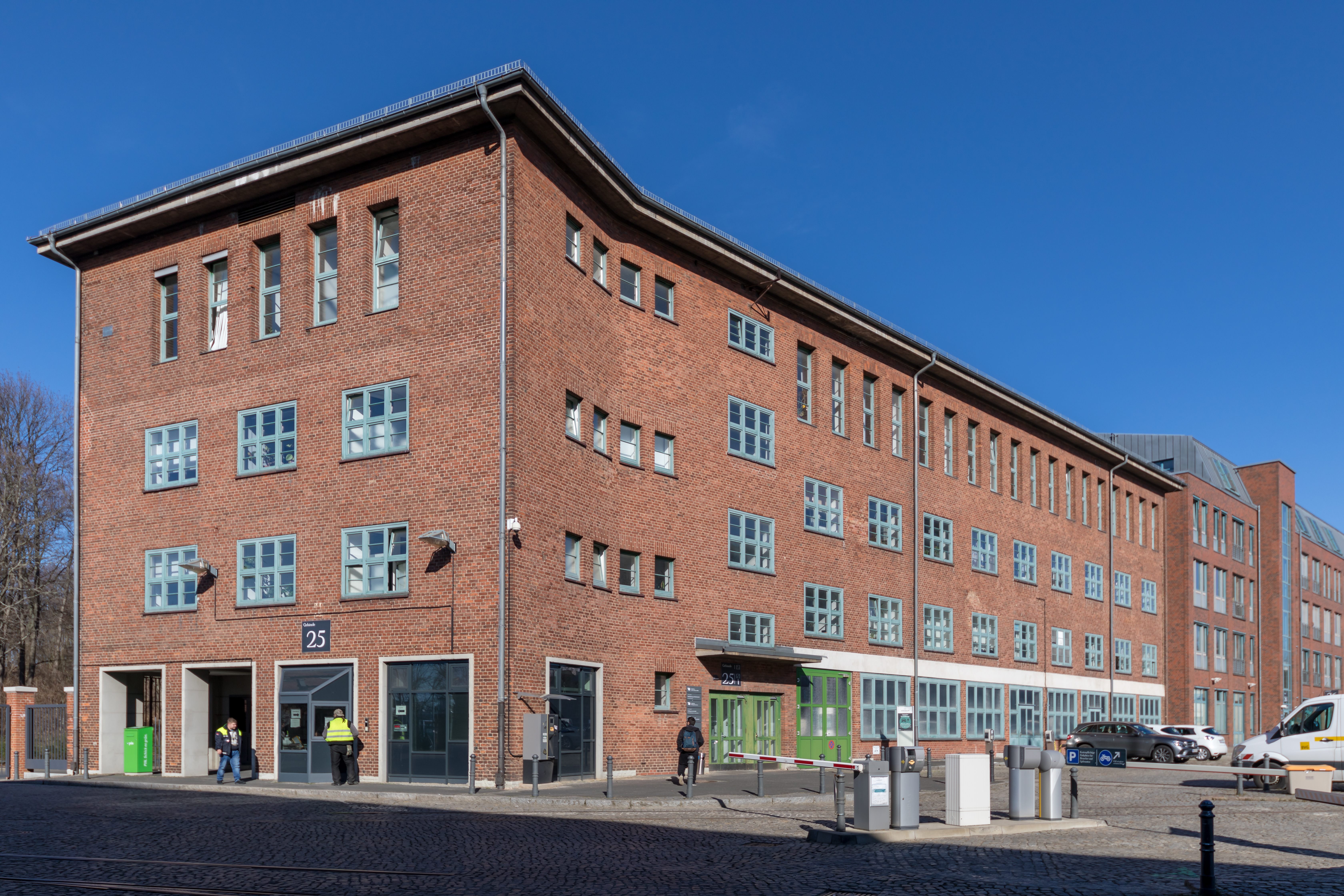 AEG-Fabriken Humboldthain